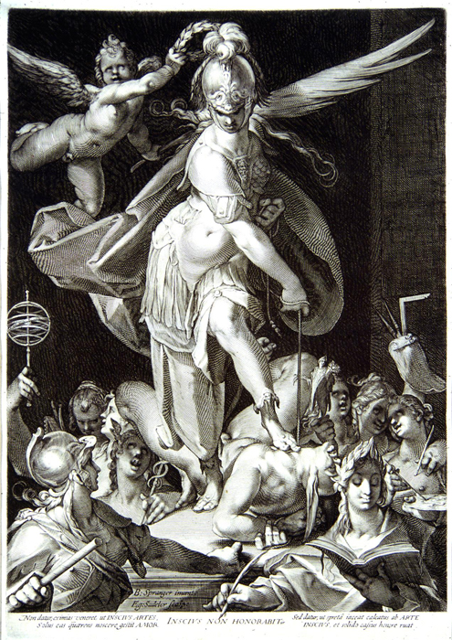 Triumph of Wisdom over Ignorance by Aegidius Sadeler, c. 1600; engraving, 19 7/8 x 14 1/8 in. (50.5 x 35.8 cm), Ackland Art Museum